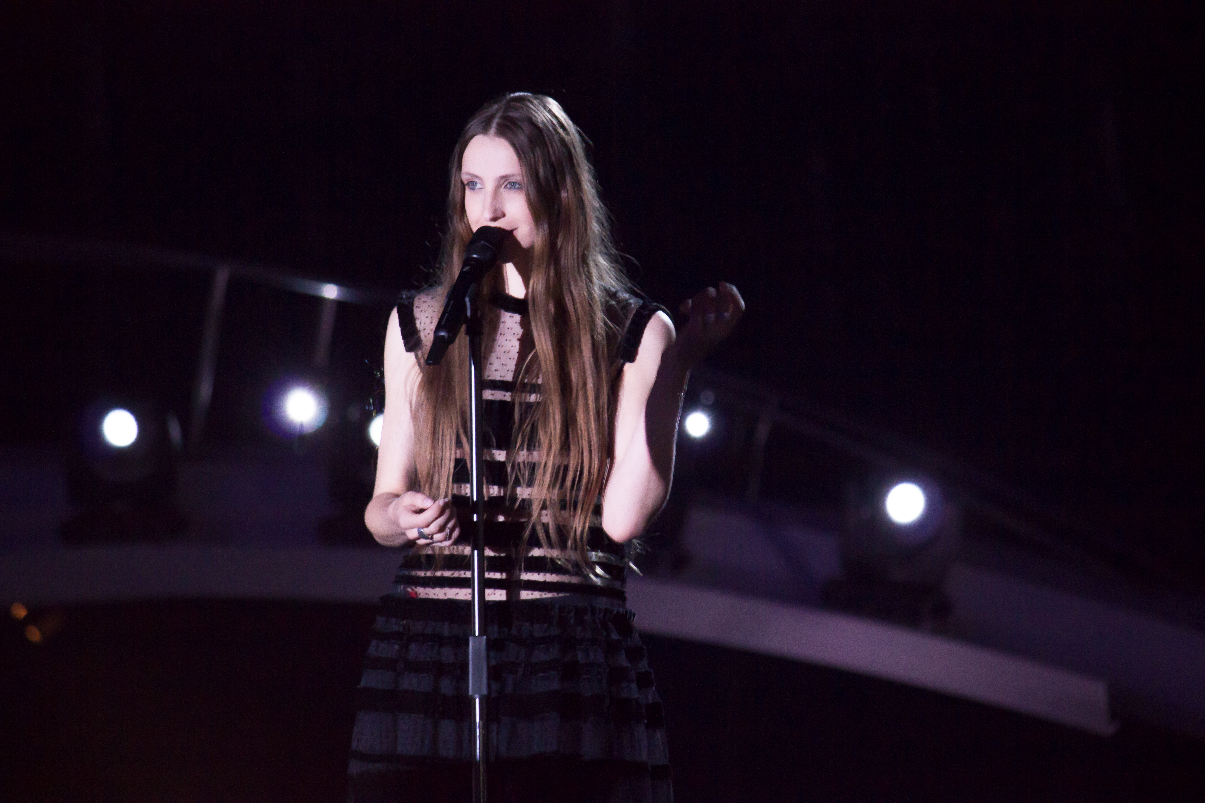 Sennek representing Belgium with the song "A Matter of Time" during a rehearsal before the first semi final of the Eurovision Song Contest 2018 in Lisbon.